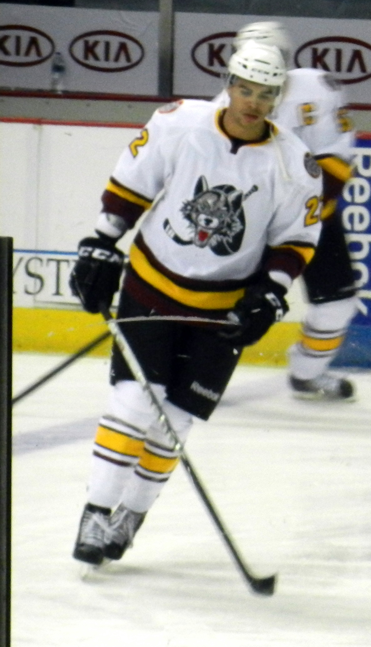 Darren Archibald playing for the Chicago Wolves during the 2011-12 AHL season